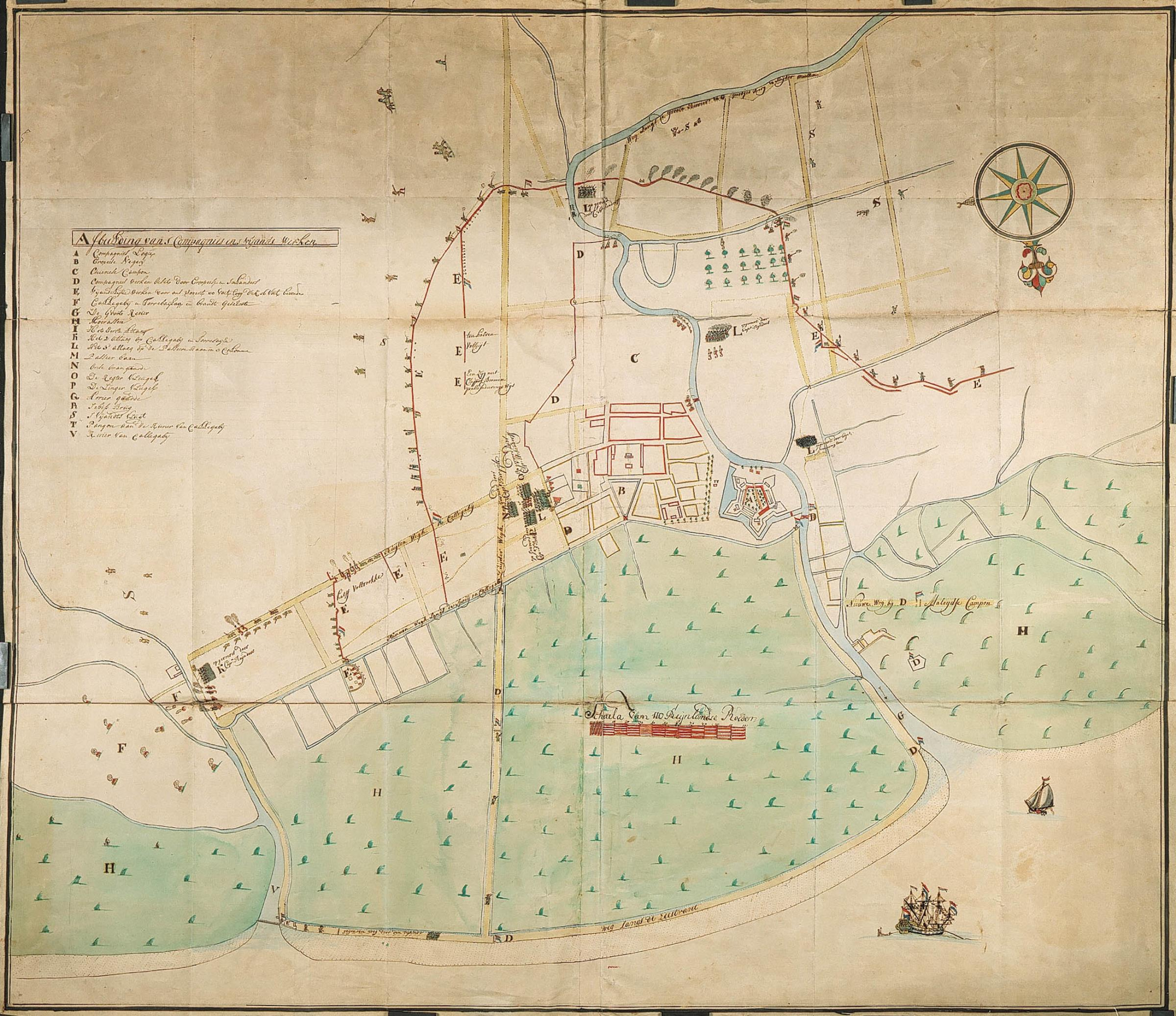 According to the Leupe catalogue (NA), the original title reads: Afbeelding van 's Compagnies en vyands werken. Key: A-V Notes on reverse: No.24 [probably the number of the item in the OBP volume]/ 816 [crossed out] / 1039 [written in place of 816, probably the folio number in the OBP volume] / N 4 74 / 633 c.